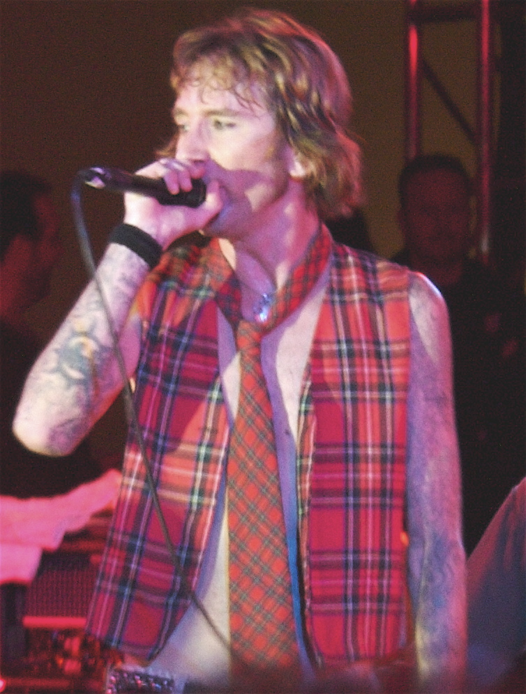 This is a photo I took of Shannon Larkin performing at at the Sabian Live show at the Anaheim CA Sheraton Hotel for the NAMM Convention. He came out from behind the drums to sing one song that night, January 18 2008.